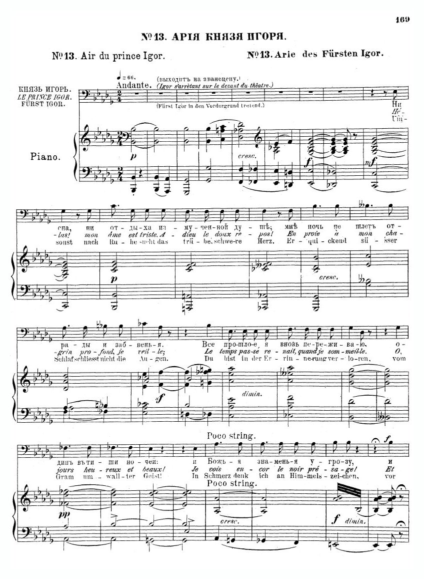 Prince Igor 13 Aria 01